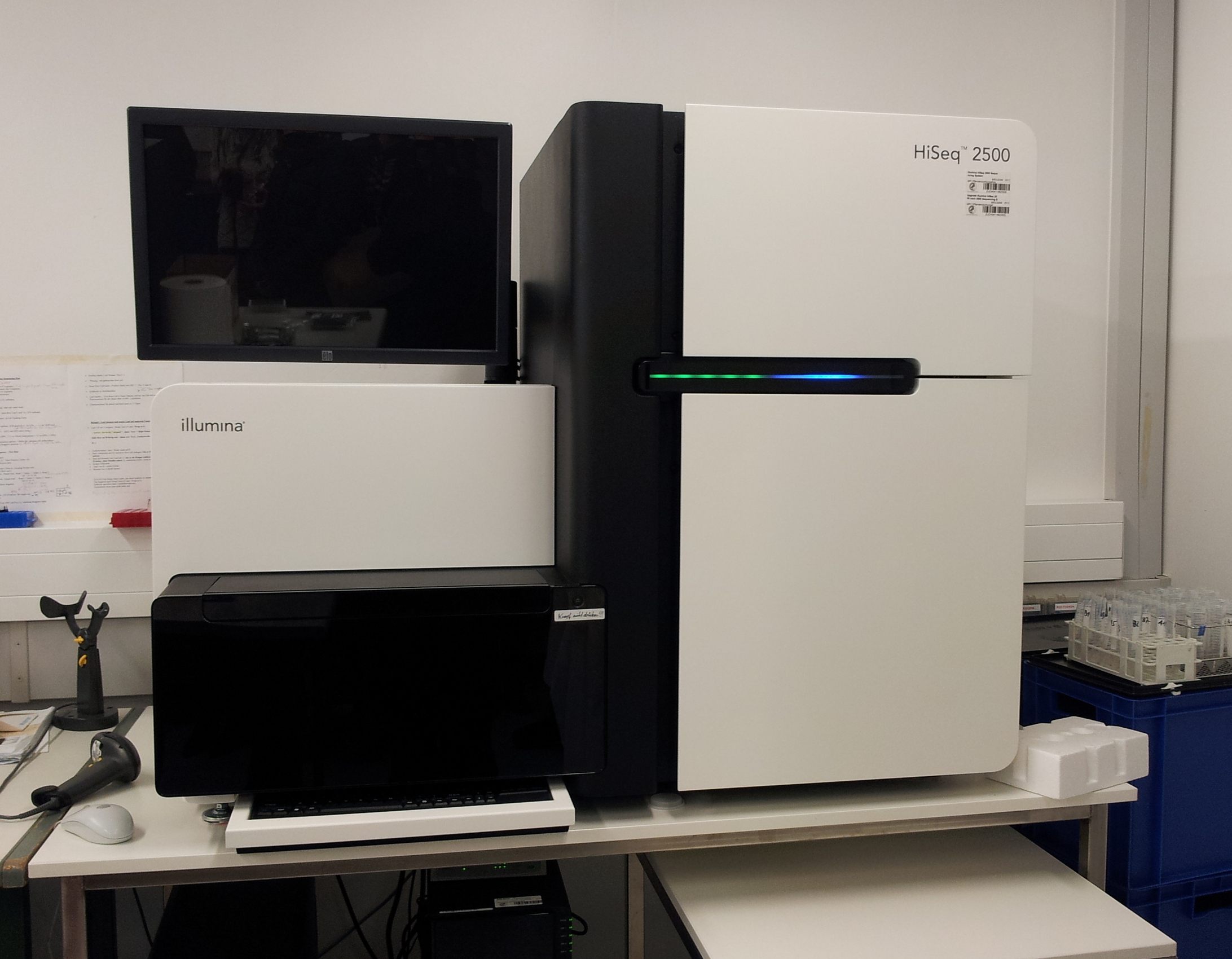 photo taken at the Max Planck Genomzentrum Cologne, Germany